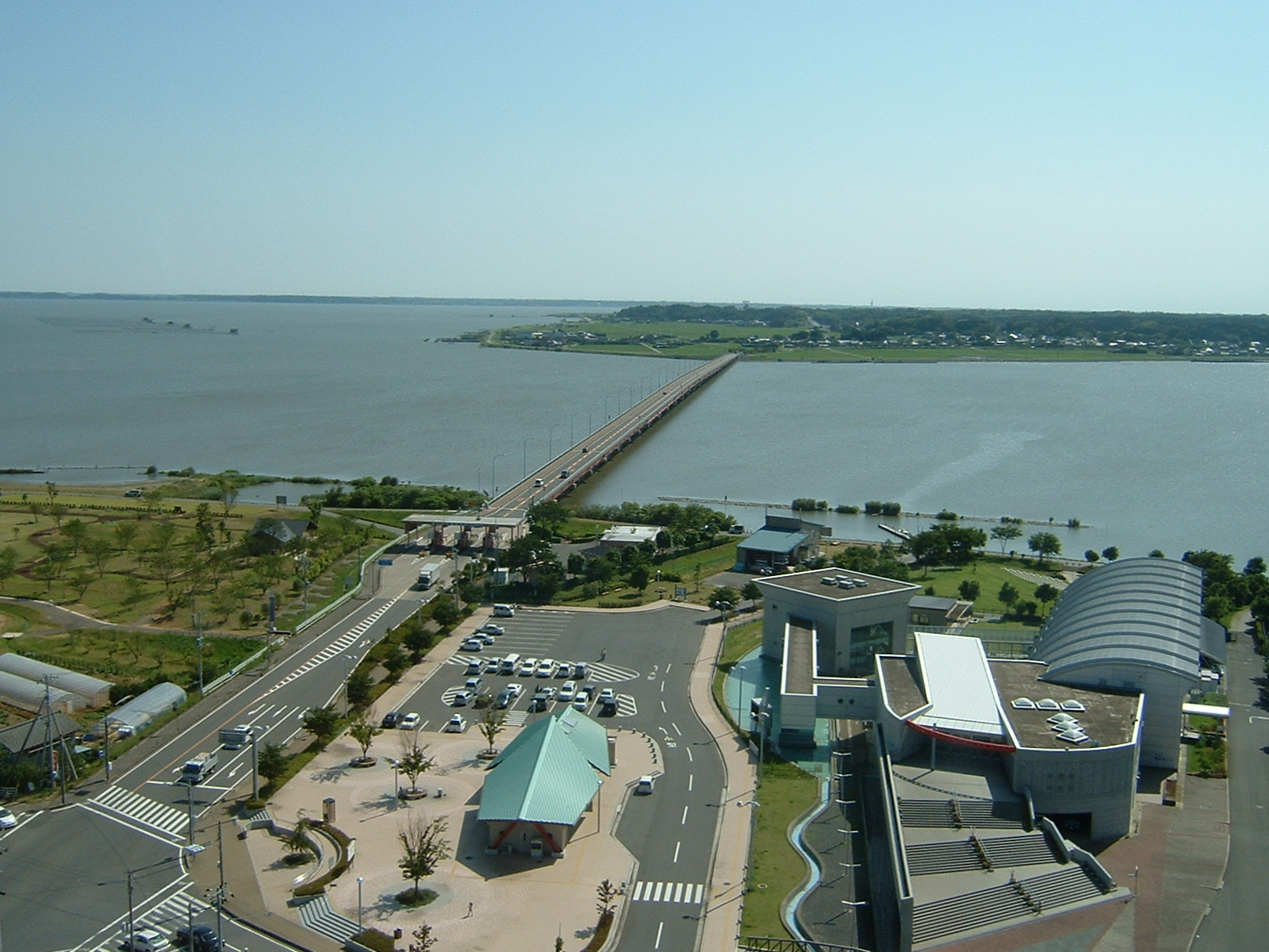 This is a photograph of Kasumigaura Bridge at the time of 2:45 pm, 3rd July 2004. Shot from Nijinotou Tower at Kasumigaura Fureai Land Park, near by the bridge. At that time, there had been a tollbooth (left lower).